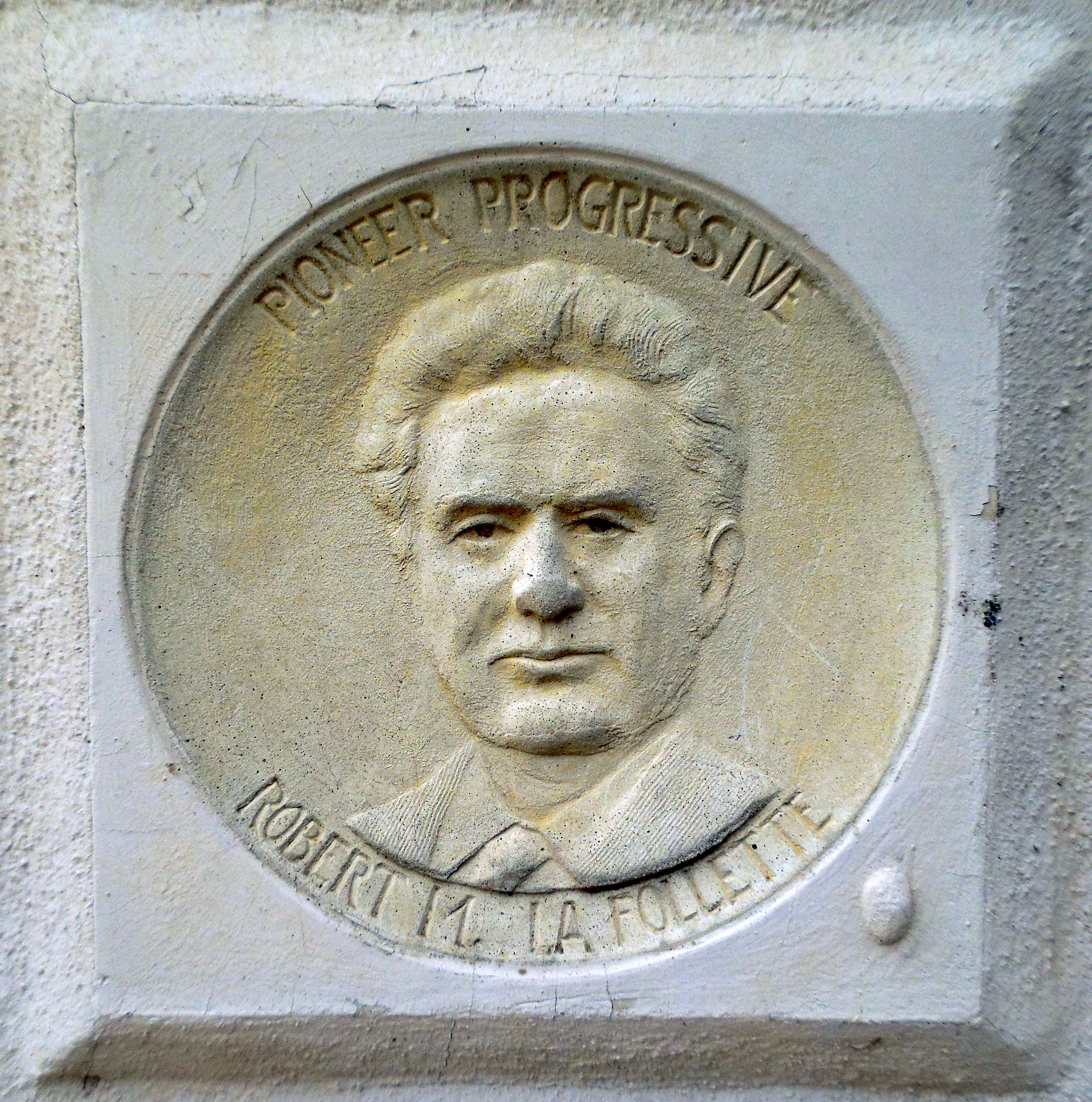 Medallion of Robert M. La Follette installed at Montarioso in Franceschi Park, Santa Barbara, California, 2017. Designed by Alden Freeman, circa 1927.